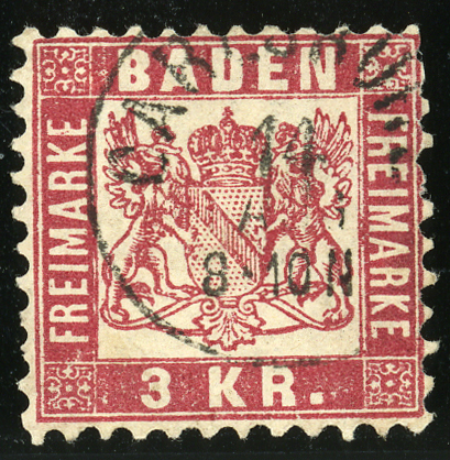 Duchy of Baden, 3 kreuzer stamp issue October 1868, cancelled at CARLSRUHE.